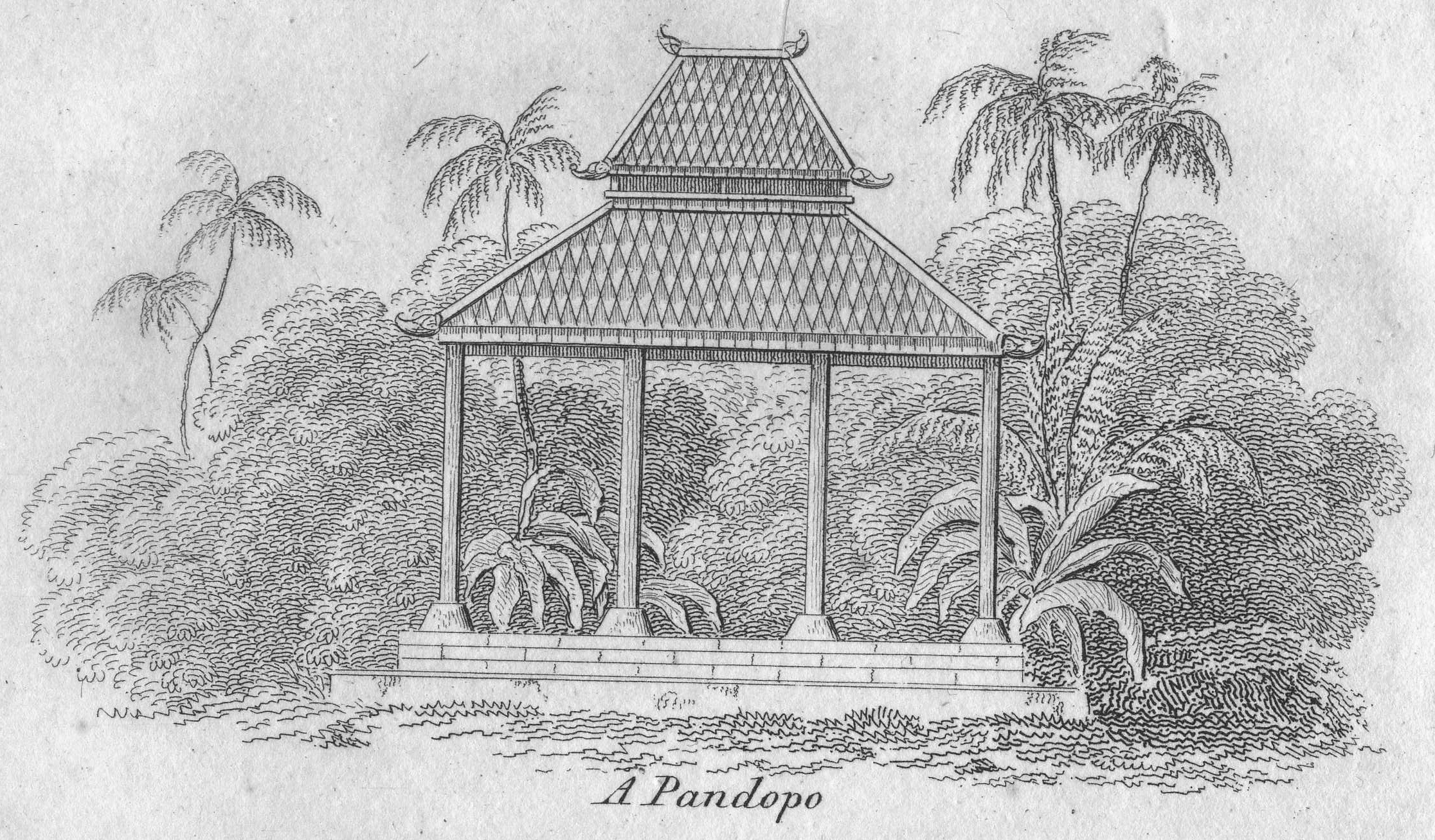 Engraving of a Javanese pendopo